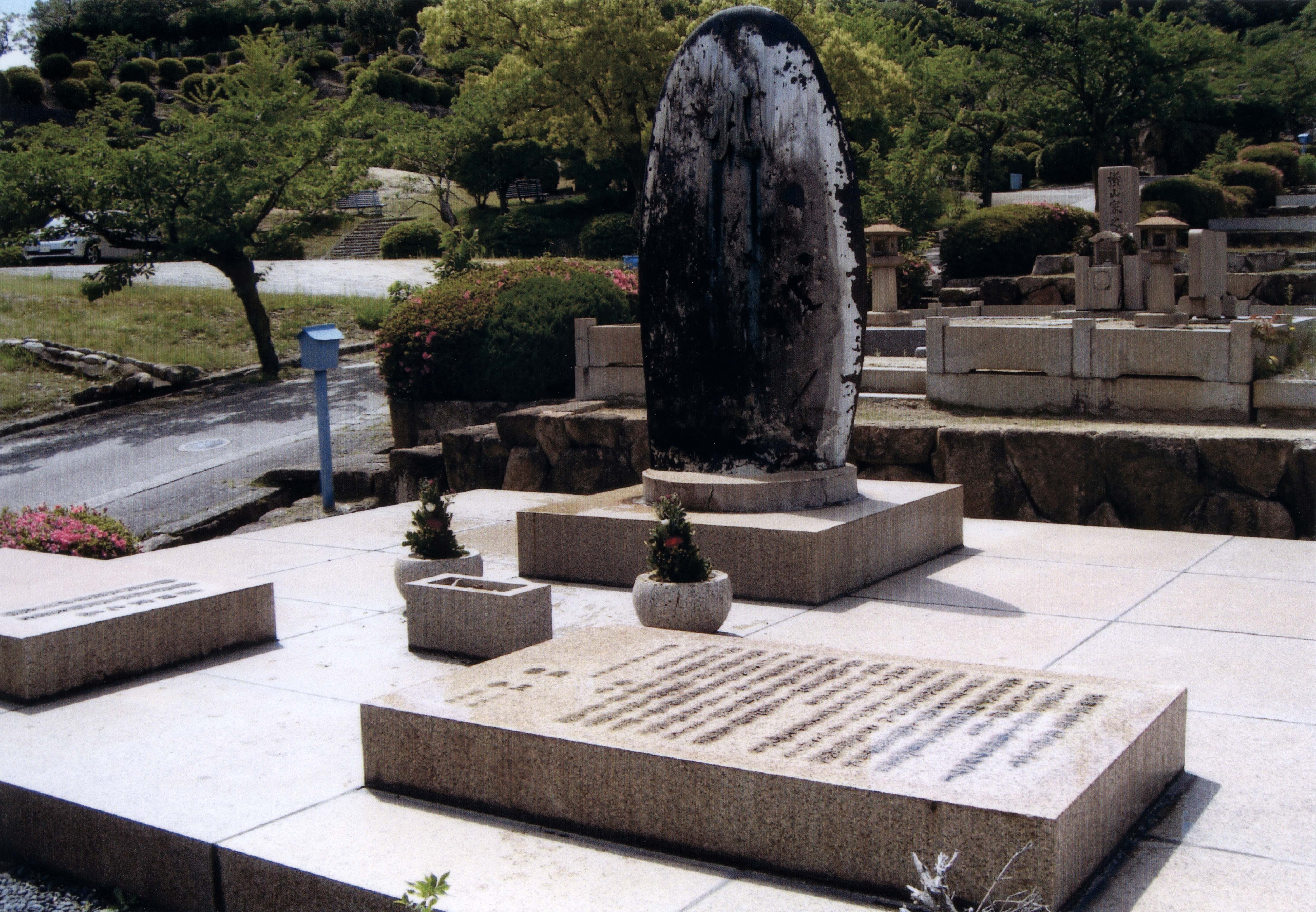 Fujita family tombstone. Symbolised salvage business, its relating wing of propellor is to be grave post. The grave post was recovered out of one of the vessels, 'Meigs' when the salvage operation to those wrecks had been implemented after the war for the period from 1959-1961.